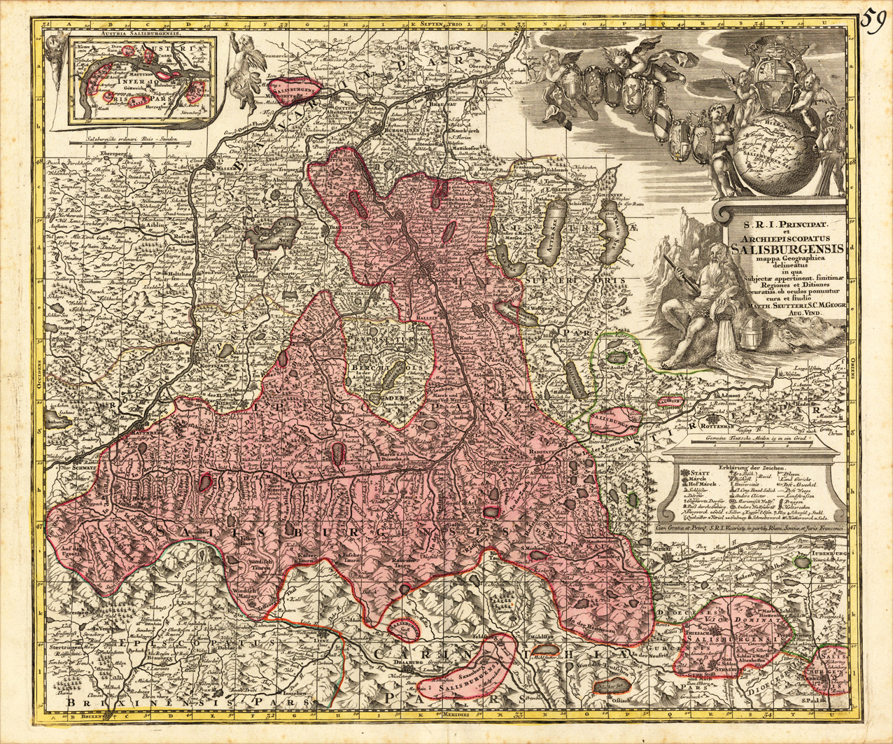 Map of the Prince-Archbishopric of Salzburg, by Matthäus Seutter. The map is a copy, with minor changes, of a map published earlier in the 18th century by Johann Baptish Homann.